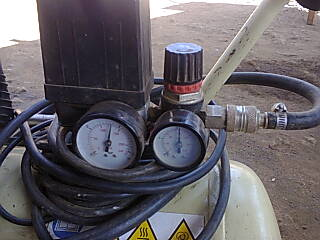 The bigger size gauge shows the pressure in the tank while the smaller size gauge will show the pressure on external devices like car tyres.